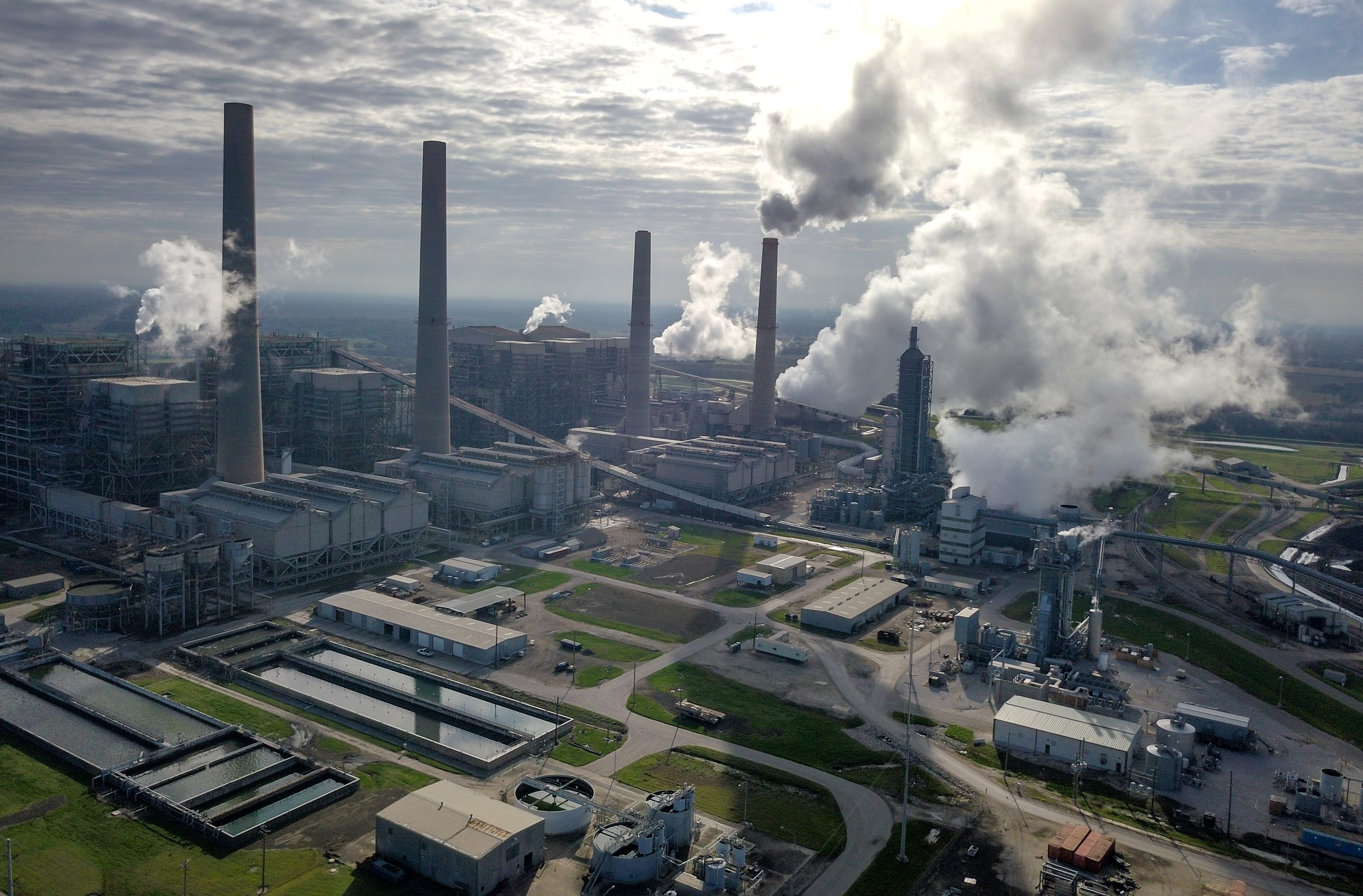 Aerial photo of the W.A. Parish Generating Plant, taken from the northwest.